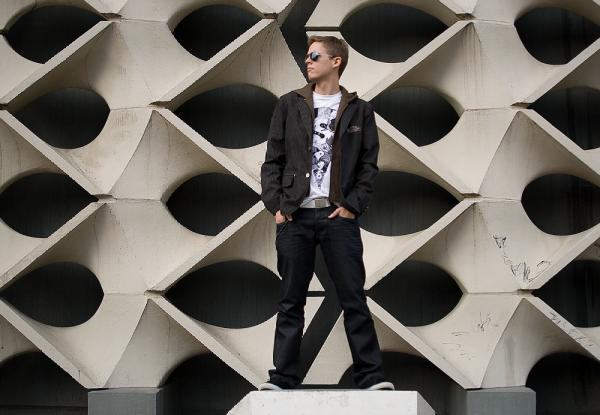 X-plosive, Musicproducer